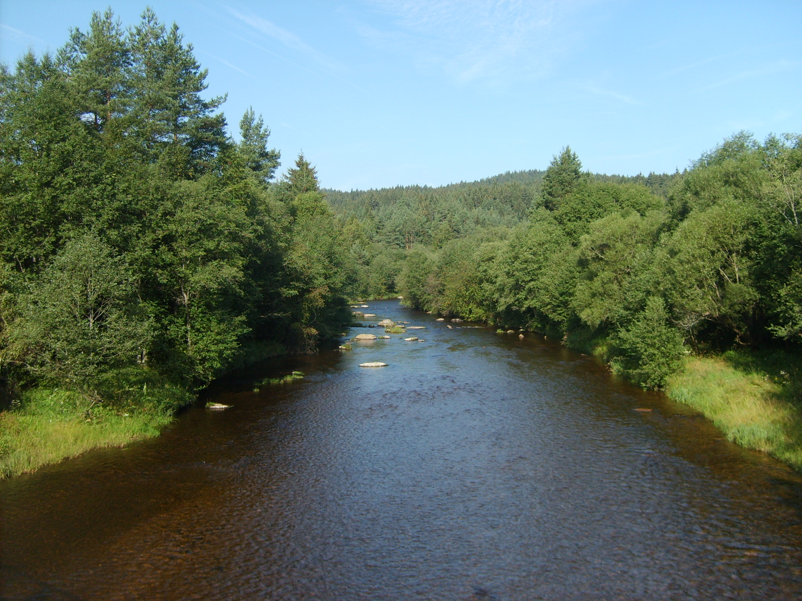 Křemelná river at Stodůlky, Bohemian Forest.